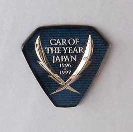 Japan Car of the Year Emblem.